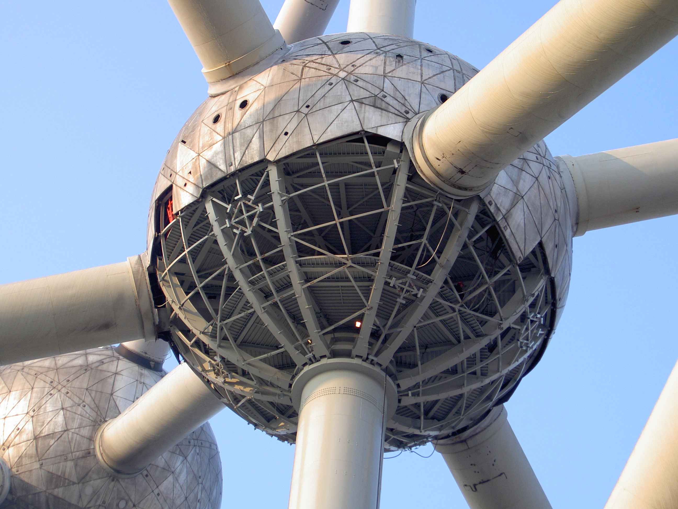 Atomium renovations.